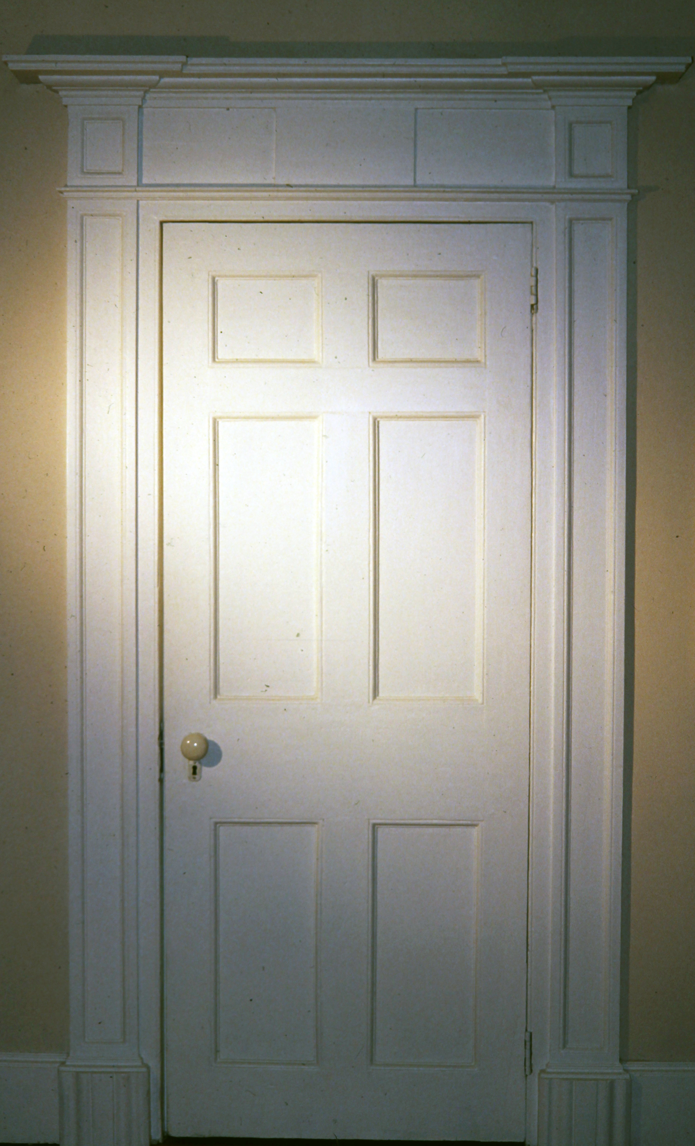 Photo I took of a Parlor Door in the Galusha House, showing original Federal style door surround.